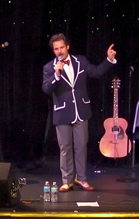 Paul F. Tompkins at JCCC2 in March 2012